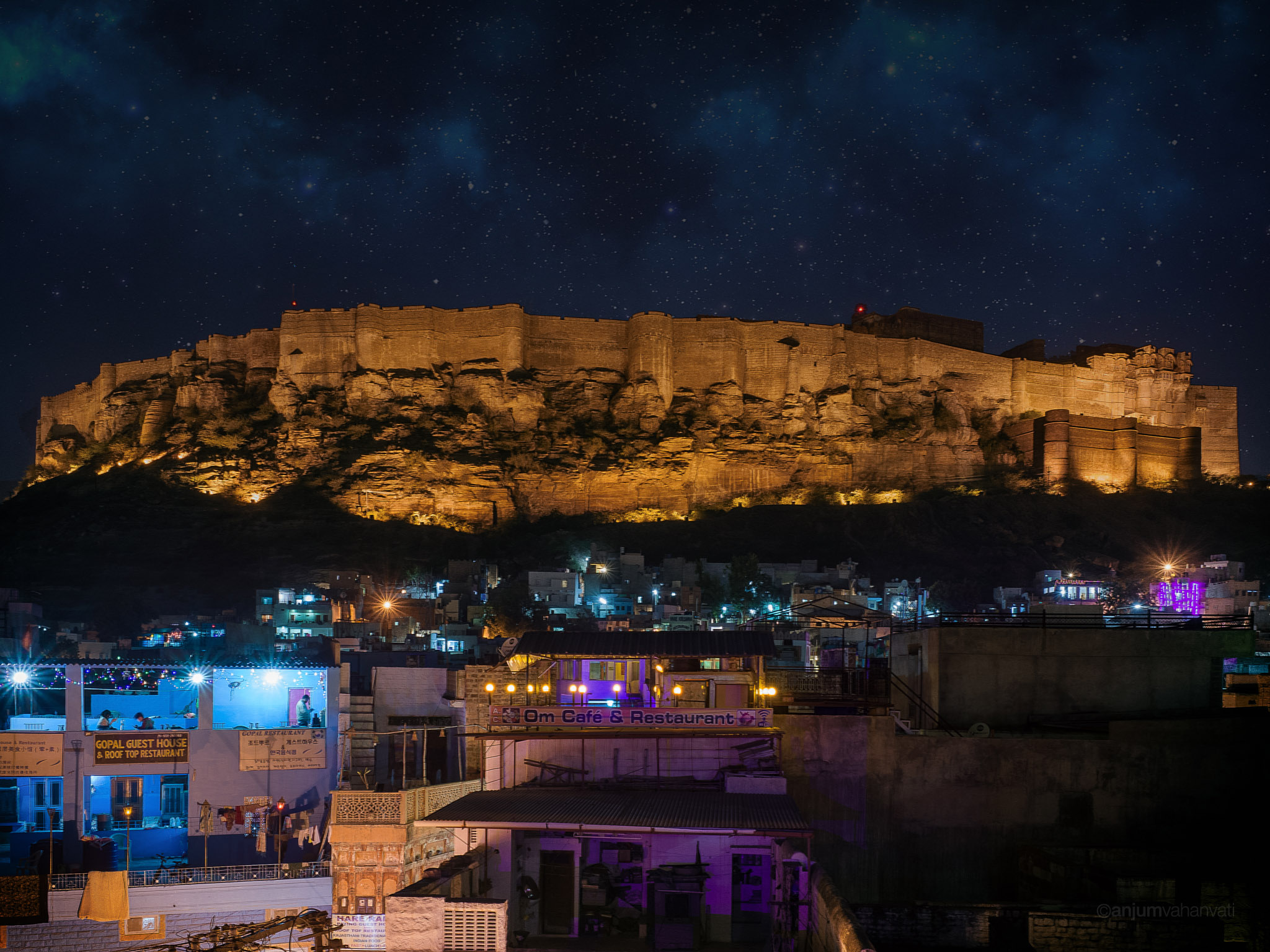 Mehrangarh Fort from a restaurant rooftop